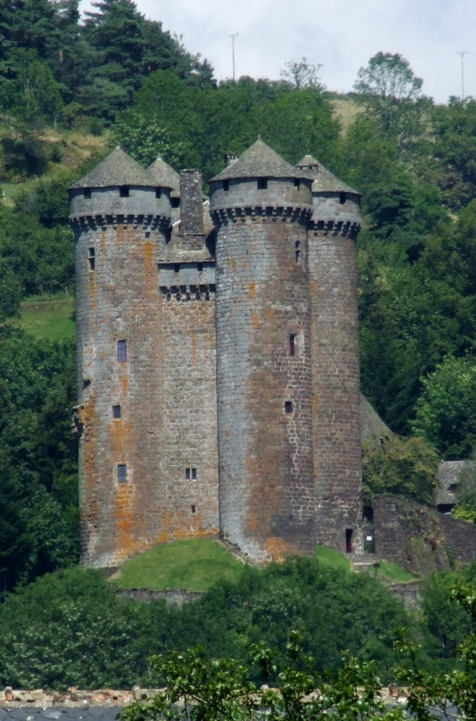 Anjony Castle, Tournemire, Cantal, Auvergne, FRANCE